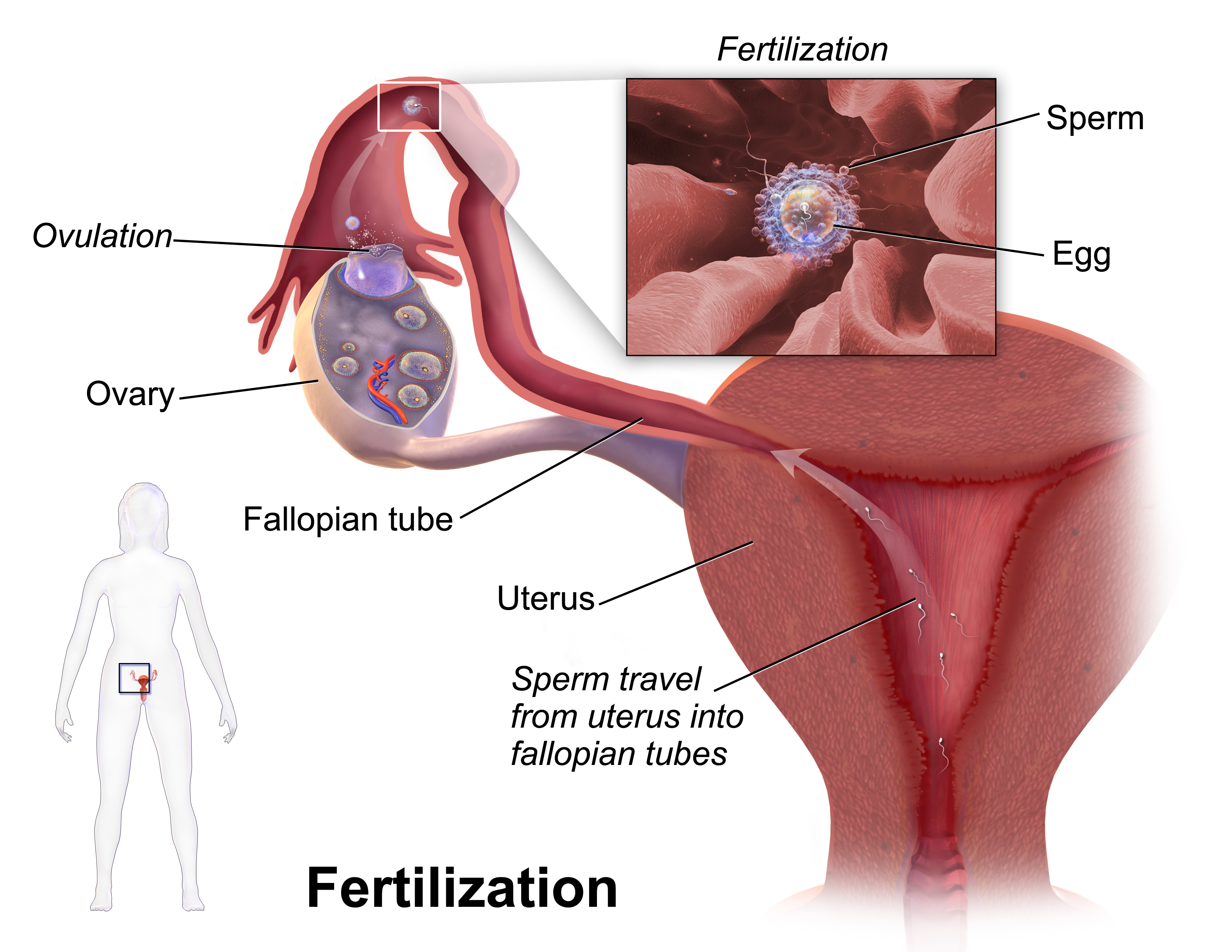 Fertilization. See a full animation of this medical topic.